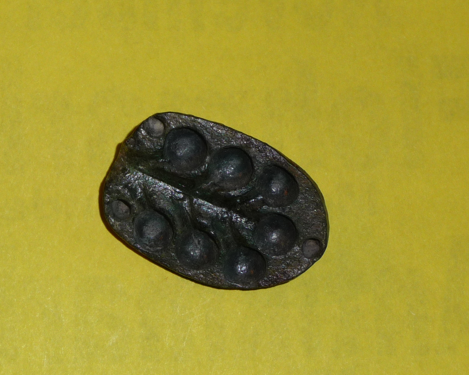 Ancient bullet mould, iron